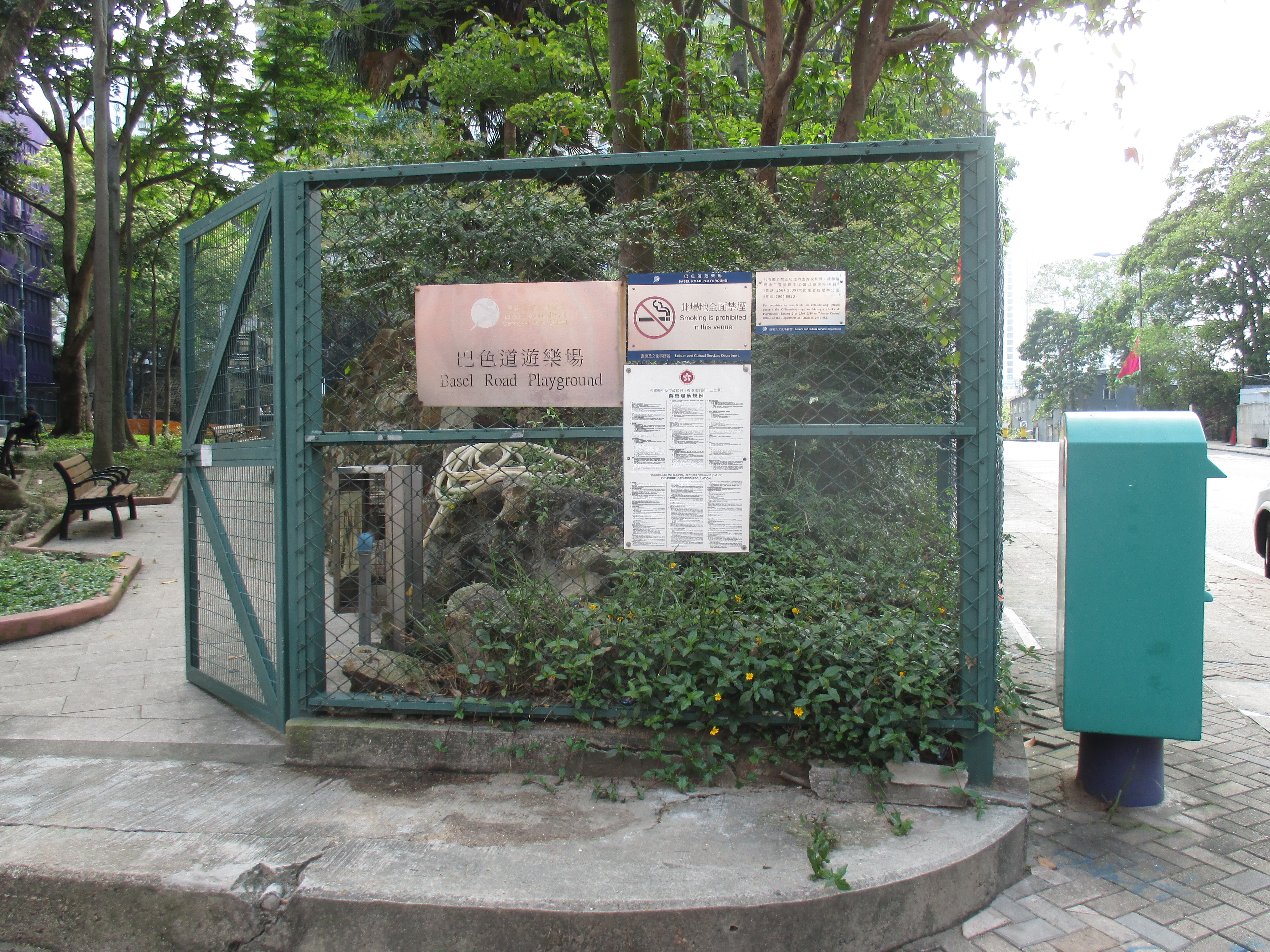 Shau Kei Wan, Eastern District, Hong Kong. Basel Road Playground